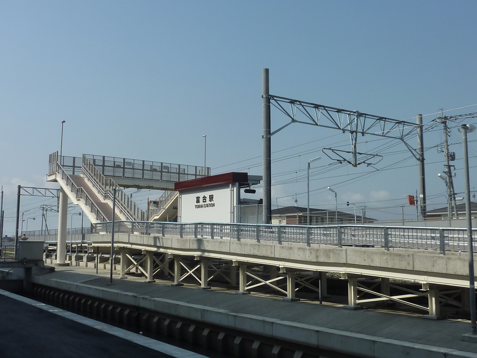 The Tomiai Station (Tomiai-machi, Kumamoto City, Japan)